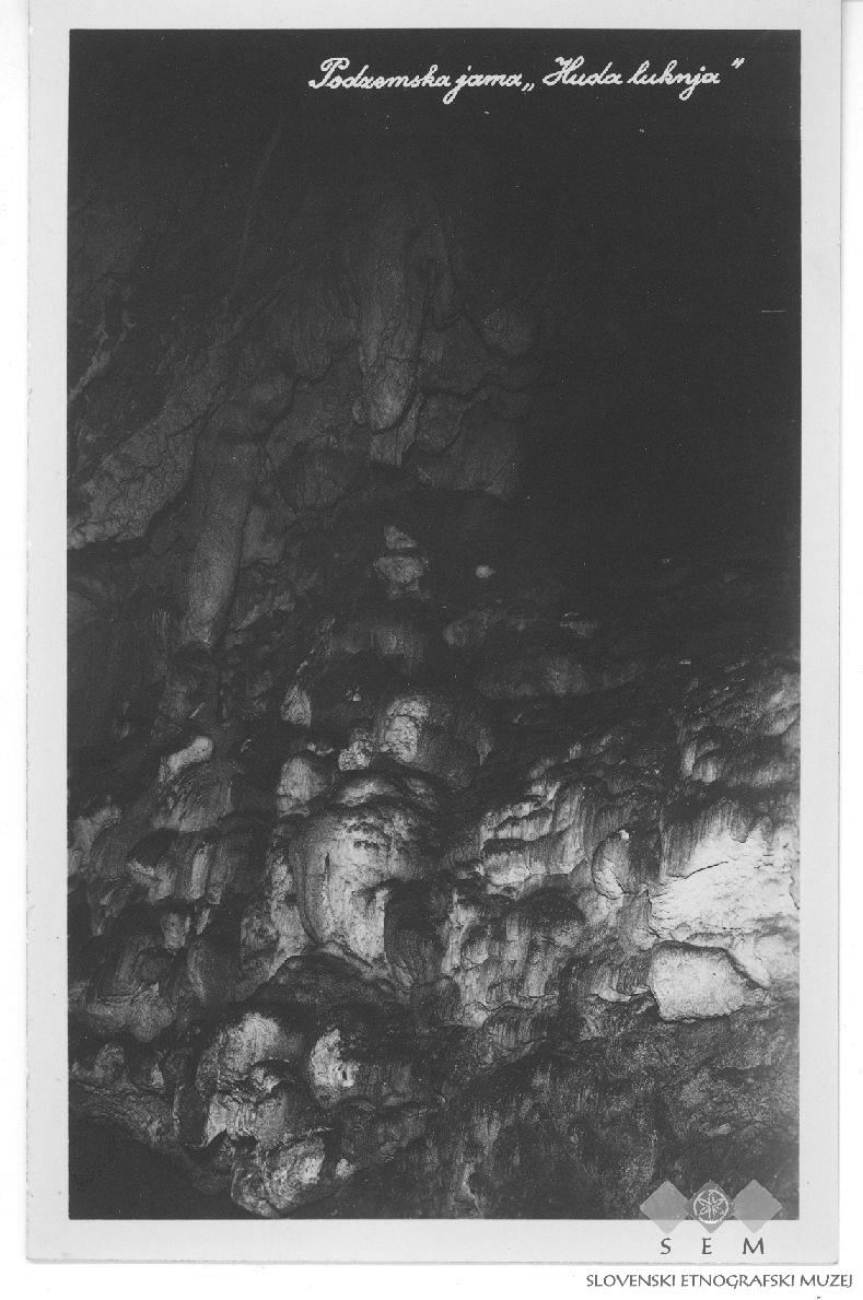 Postcard of Huda luknja